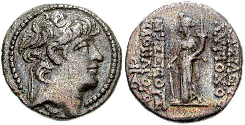 Drachm. Antioch mint. 1st reign at Antioch, circa 94-93 BC